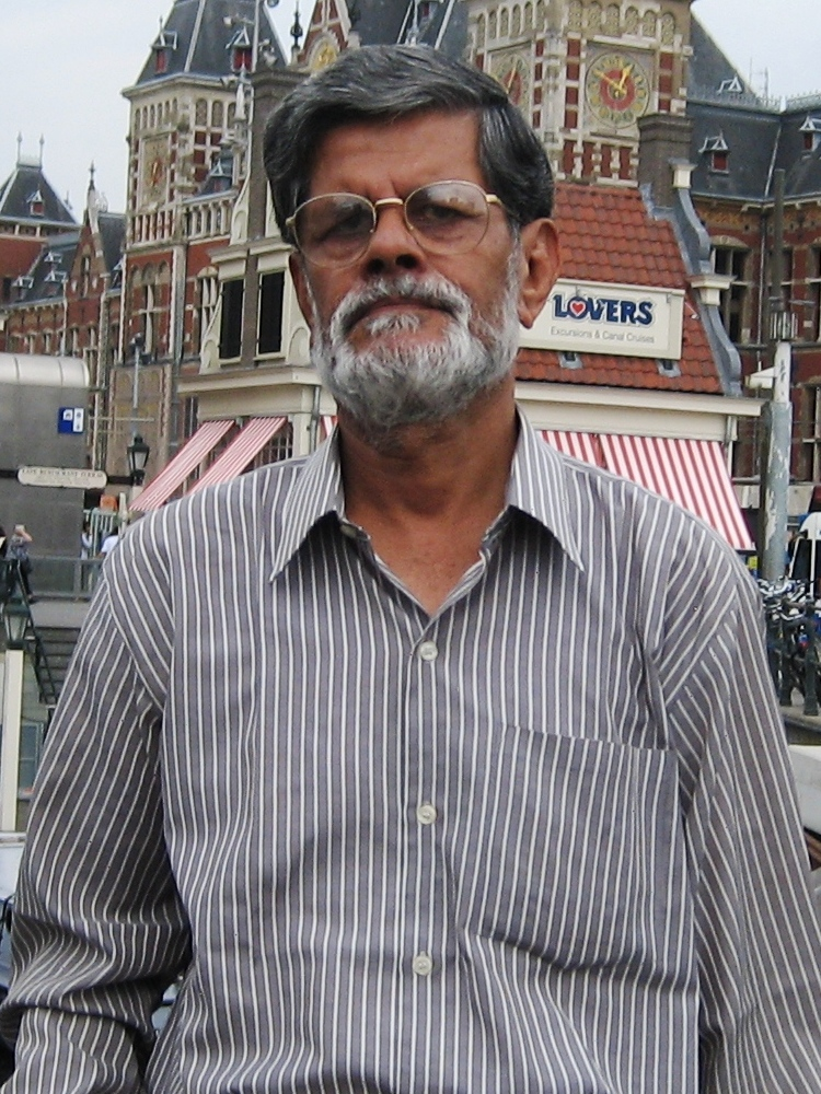 Malay in front of the Railway Station in Amsterdam